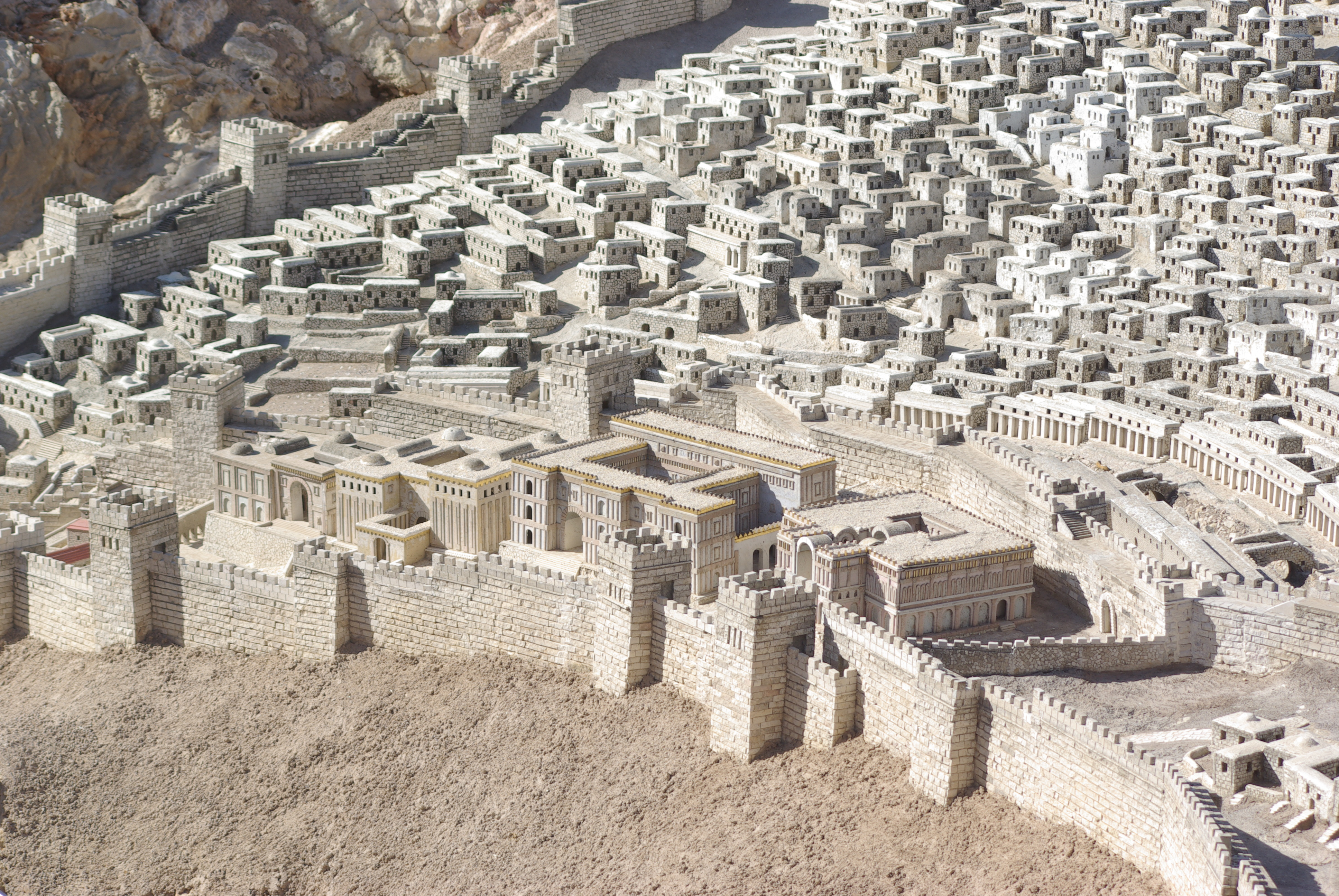 Jerusalem Model, Palaces of Helena Queen of Adiabene